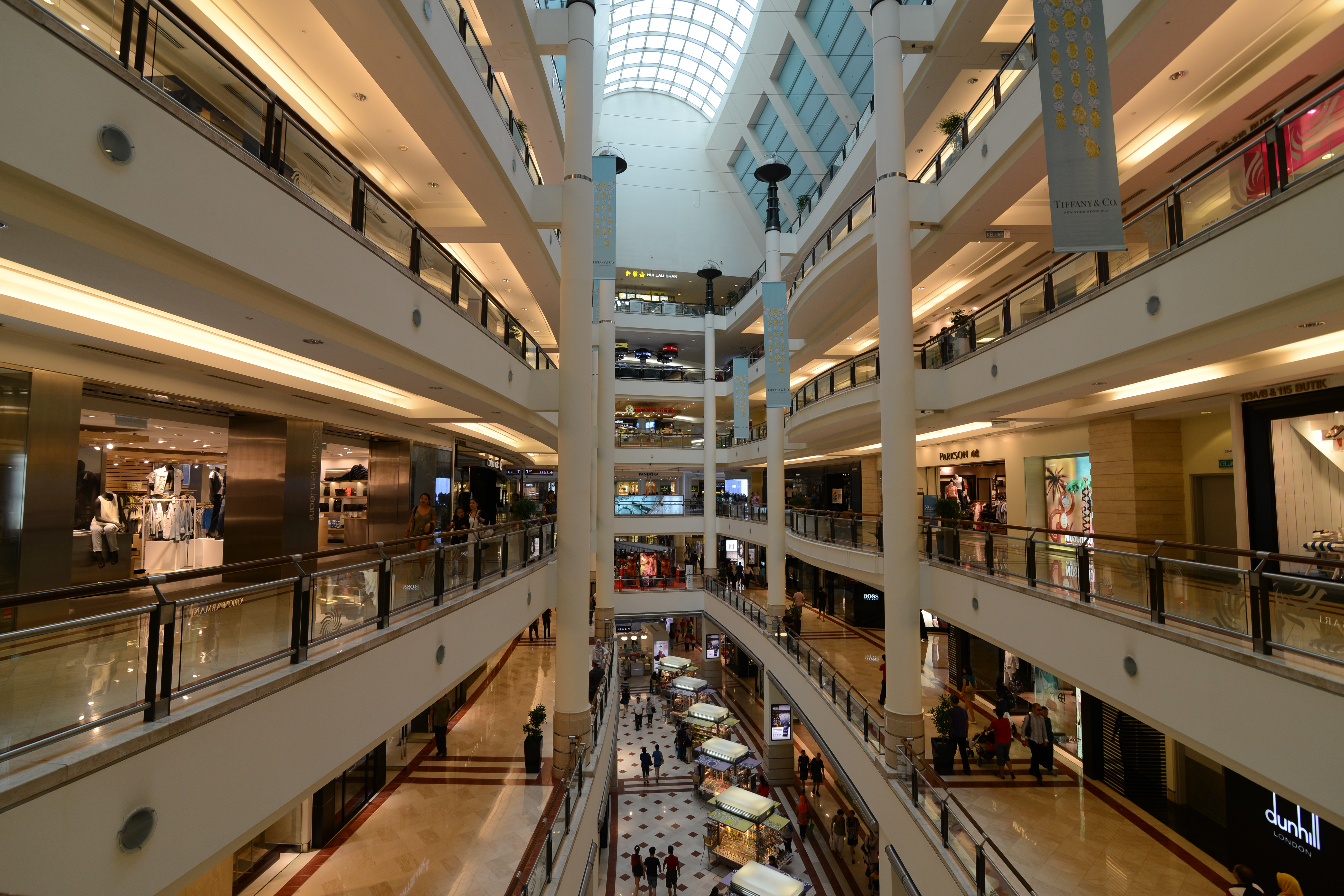 Suria KLCC is a 140,000 m2 (1,500,000 sq ft) upmarket retail center at the feet of the Petronas Towers. It features mostly foreign luxury goods and high-street labels. Its attractions include an art gallery, a philharmonic theatre, an underwater aquarium and also a Science center. Suria KLCC is one of the largest shopping malls in Malaysia